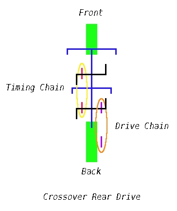 Top over view of a tandem and chains.